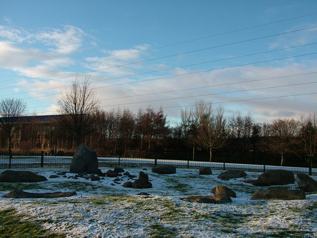 Balgarthno stone circle Balgarthno stone circle is a recumbent stone circle, the only one to survive in the area. It probably dates to somewhere between the late Neolithic and early Bronze Age periods (c. 3,300 and 2,500 BC). It's also known as Gourdie Stanes and must have been part of the other Neolithic sites in the area. Was nearly an ASDA car park